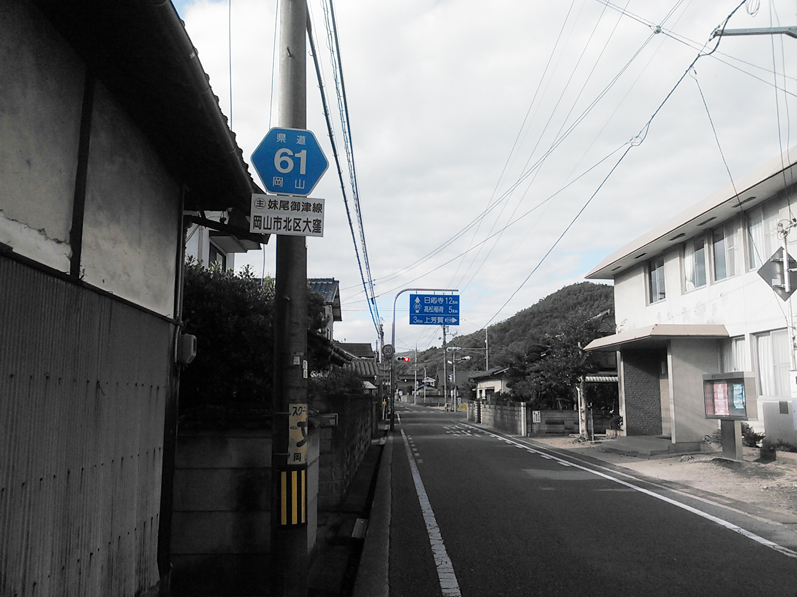 岡山県道61号妹尾御津線。岡山市北区大窪区間。投稿者による撮影。